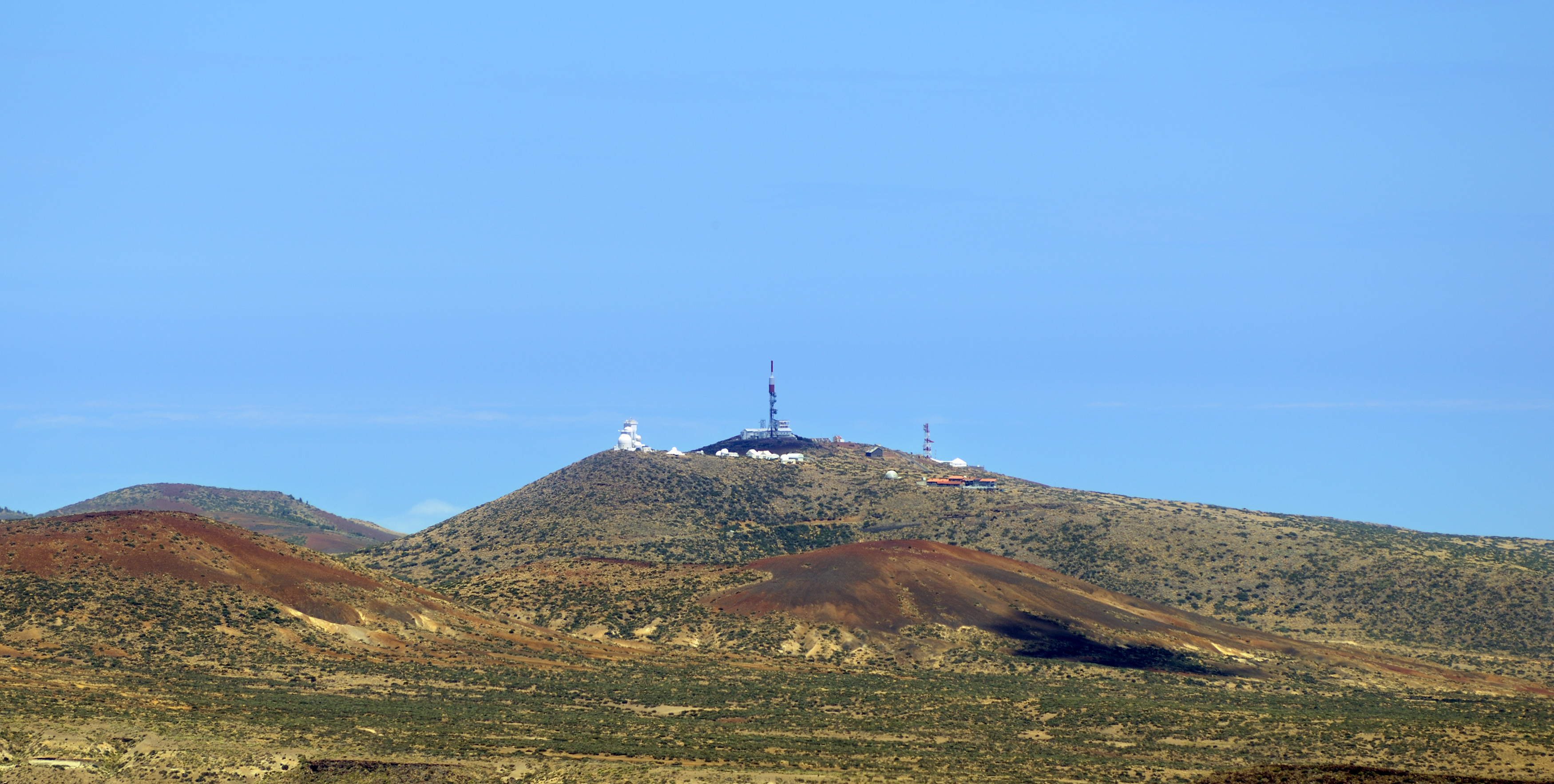 "Instituto de Astrofísica de Canarias" at Tenerife. The photo has been taken at the mountain Guajara from a distance of 14 km.